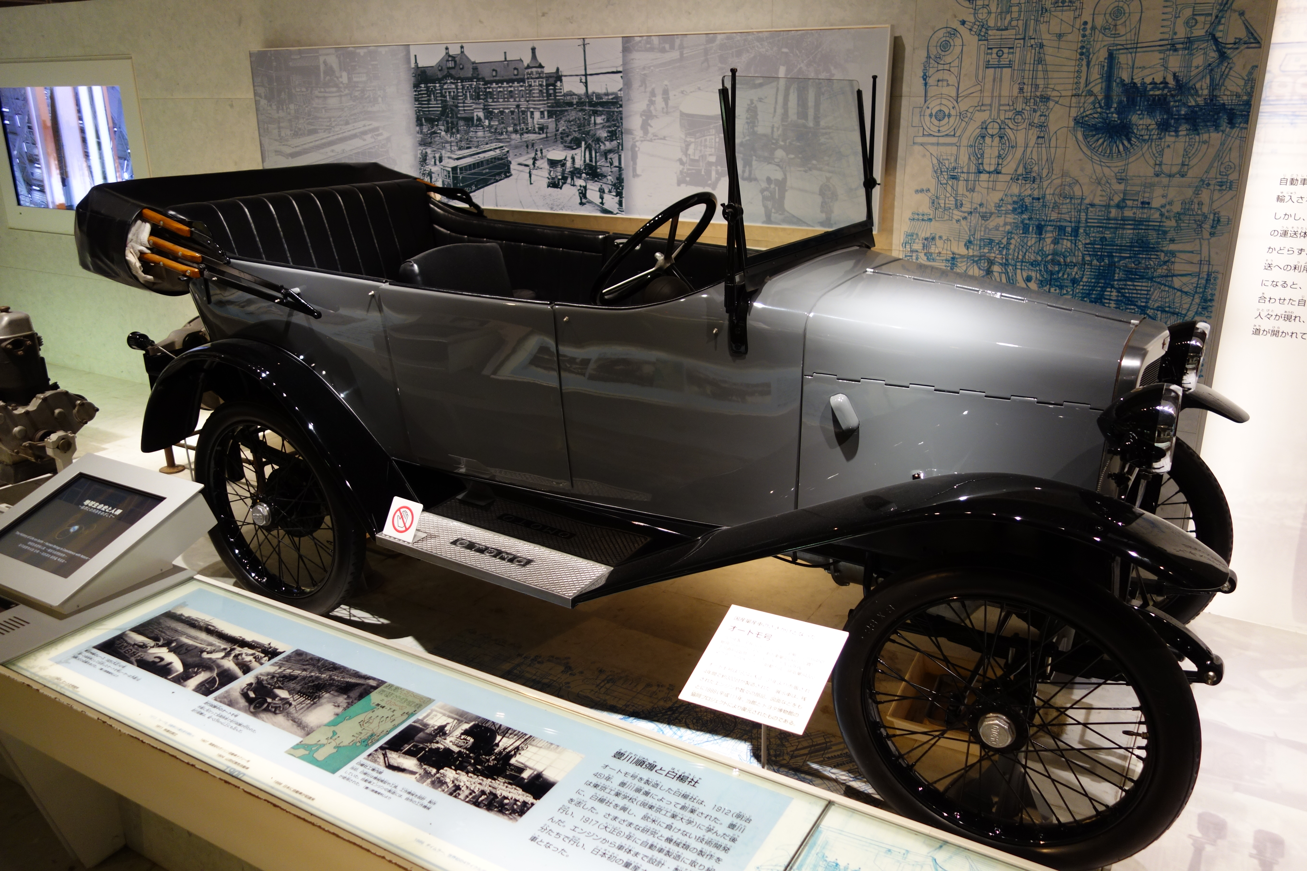 Exhibit in the National Museum of Nature and Science, Tokyo, Japan.